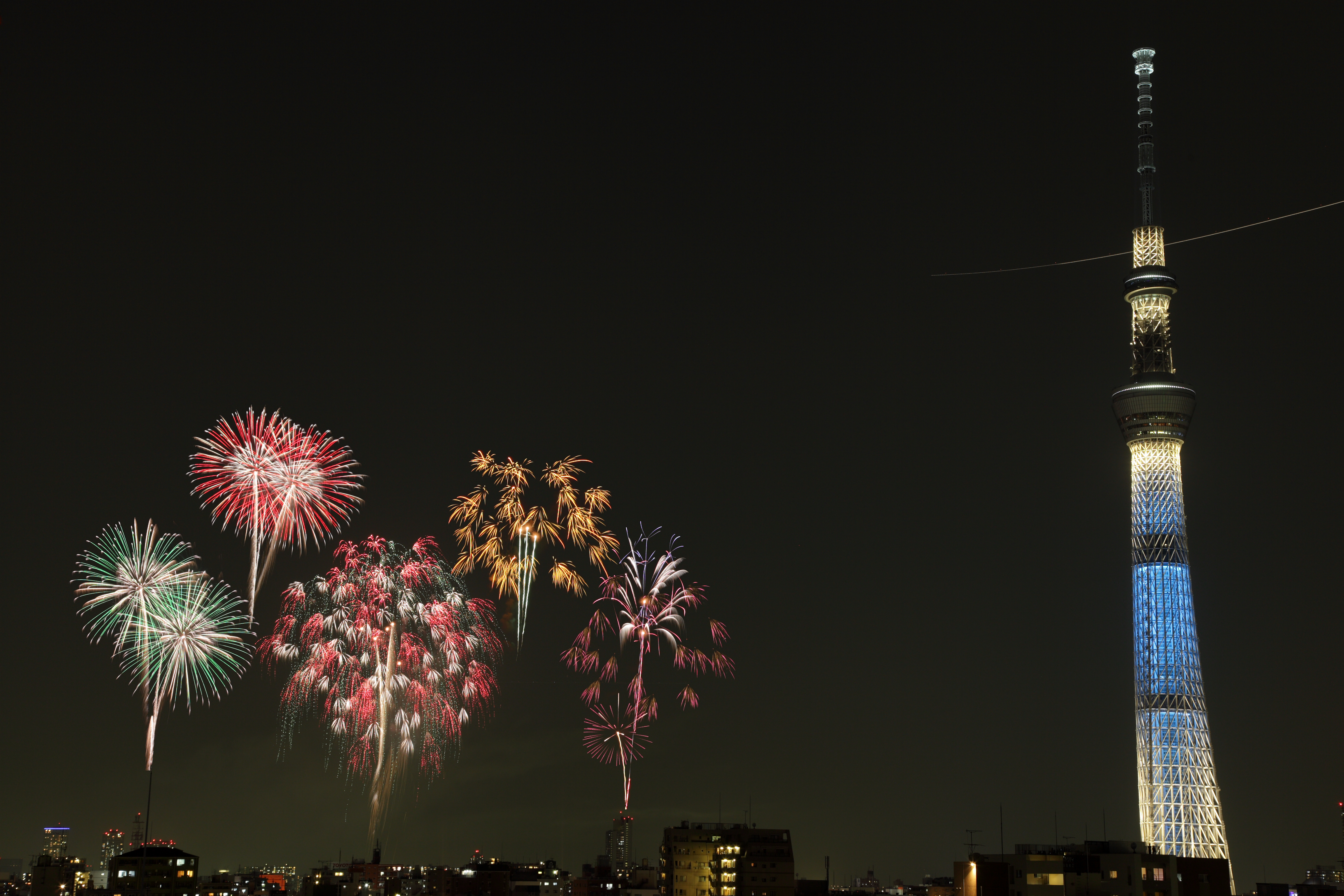 Sumidagawa Fireworks Festival 2012